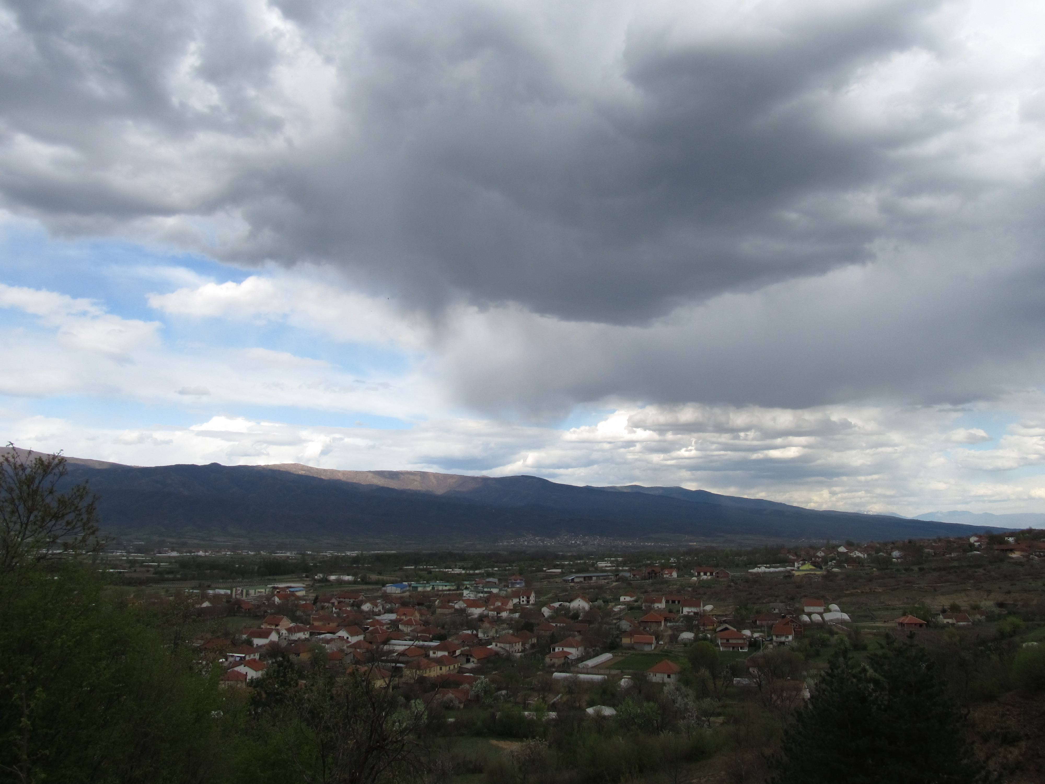 General view of the village Koleshino, Мacedonia